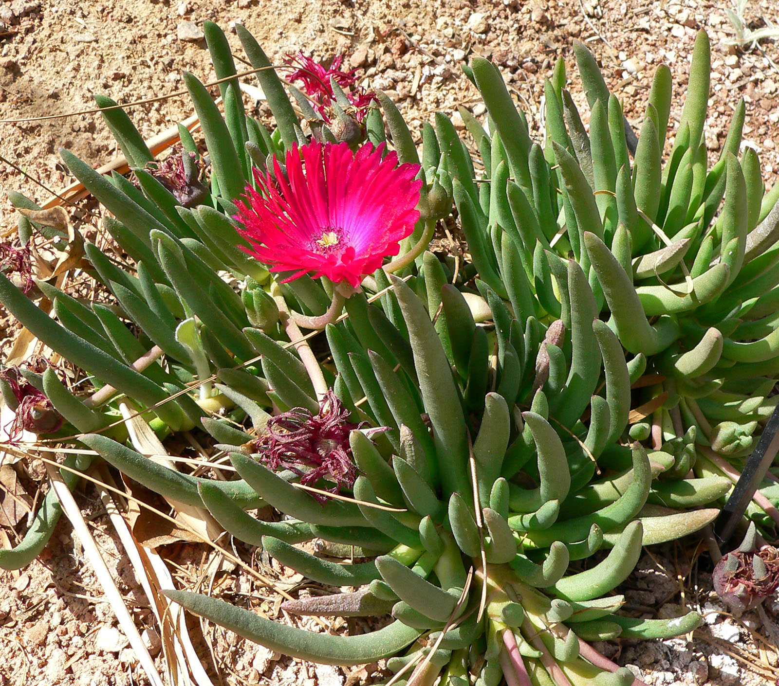 Cephalophyllum stayneri at the Springs Preserve garden, Las Vegas, Nevada